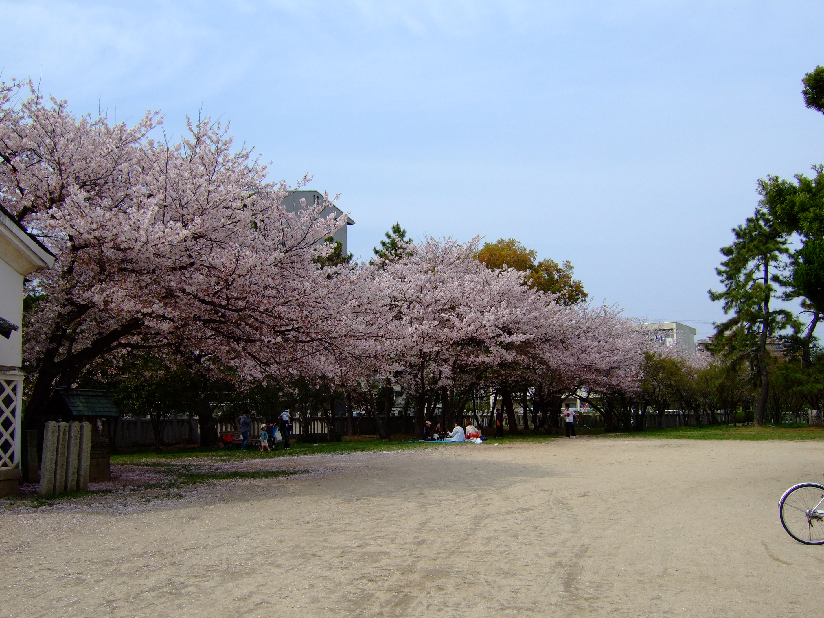 Japanese[edit] ファイルの概要[edit] Description